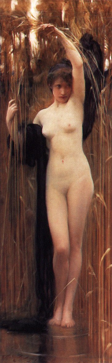 The Syrinx